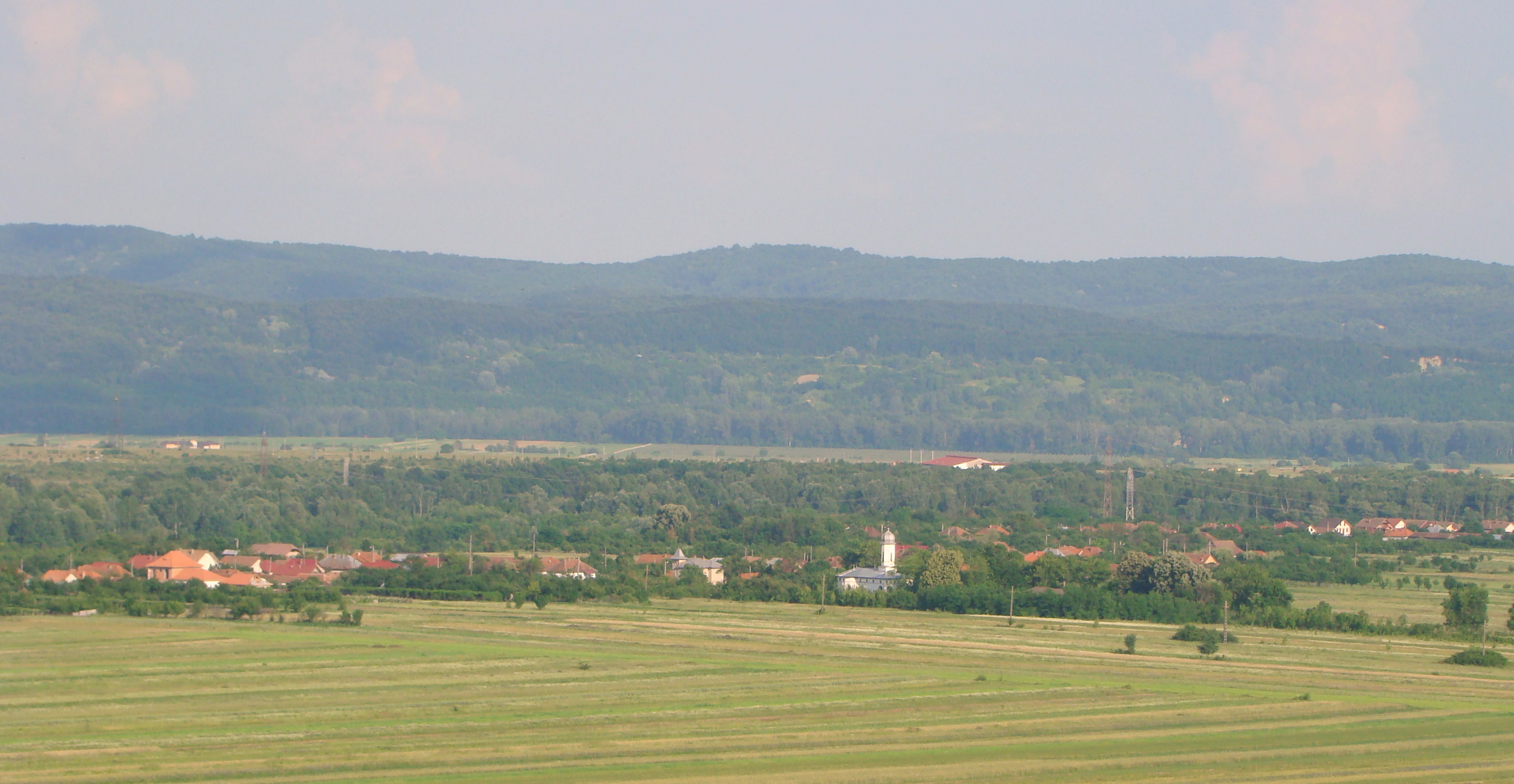 Colibași, Gorj county, Romania